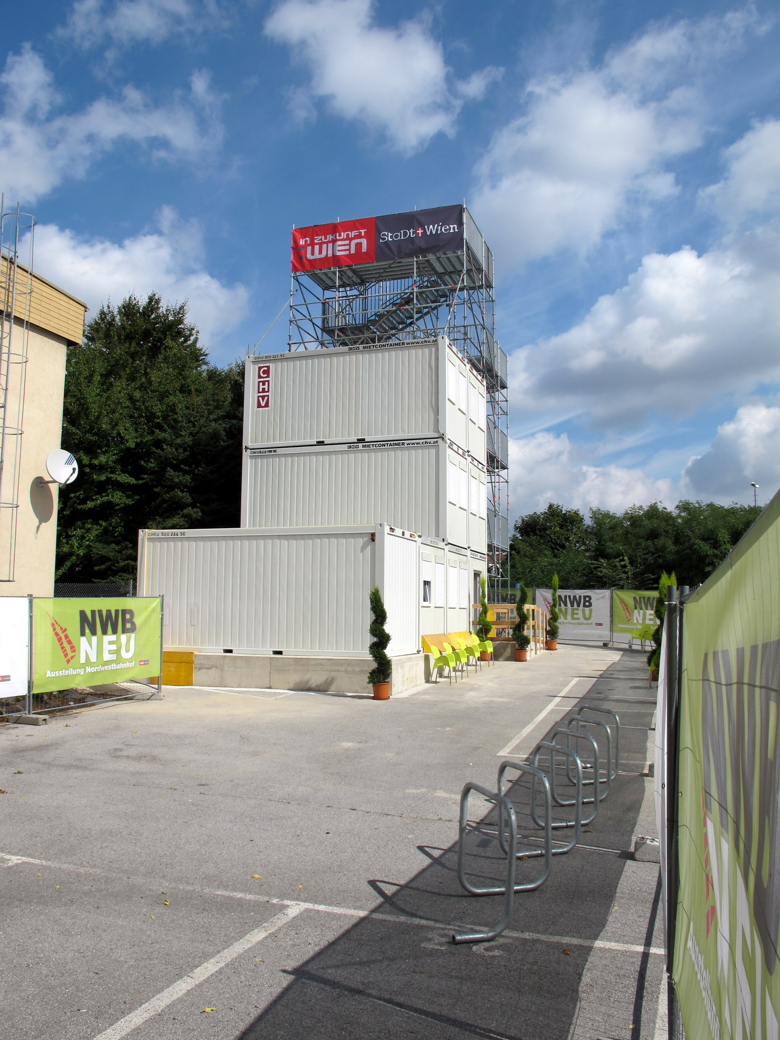 NBW NEW exhibition (Northwest Station New) in the Nordwestbahnstraße 16 in Vienna Brigittenau / Austria / EU.